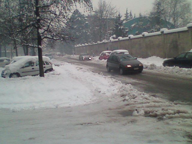 via biancamano under snow. Triante, Monza, Italy.